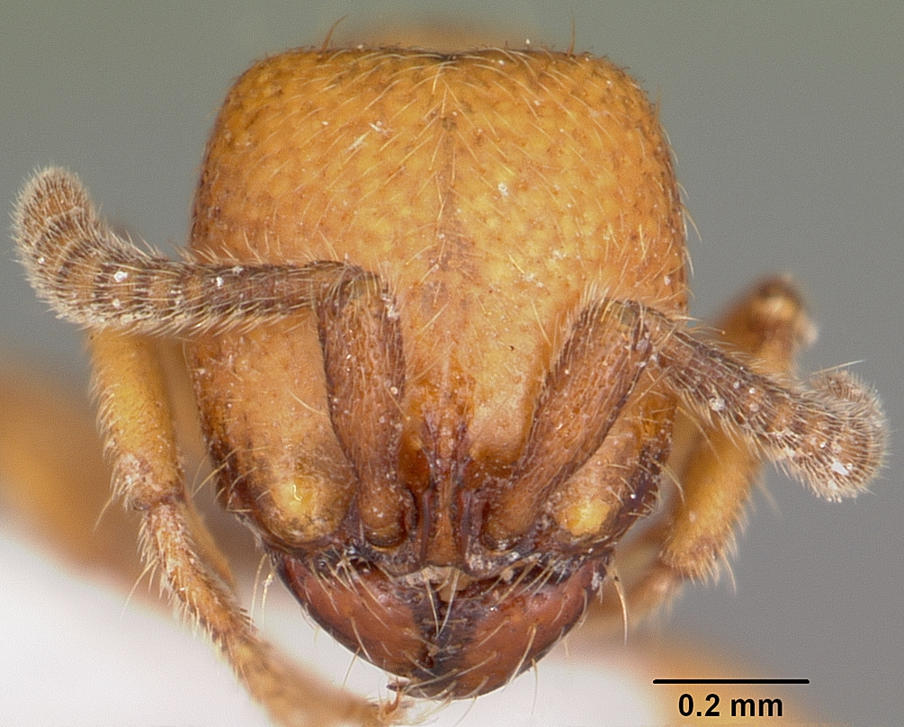 Head view of ant Cerapachys sexspinus specimen casent0104984.